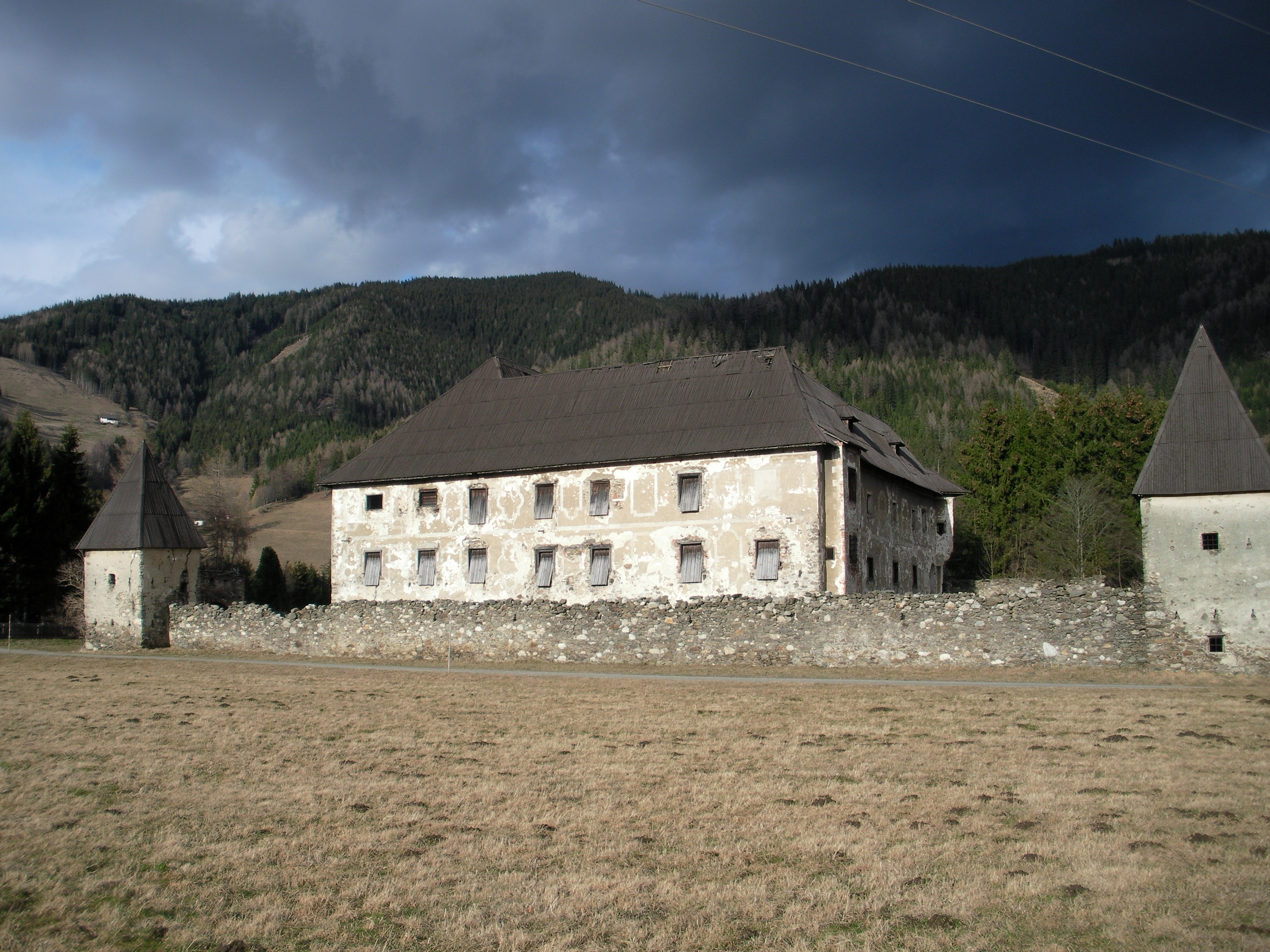 Castle Hanfelden, Unterzeiring, located on the south side of Triebener Tauern, in the midst of a vast plateau.